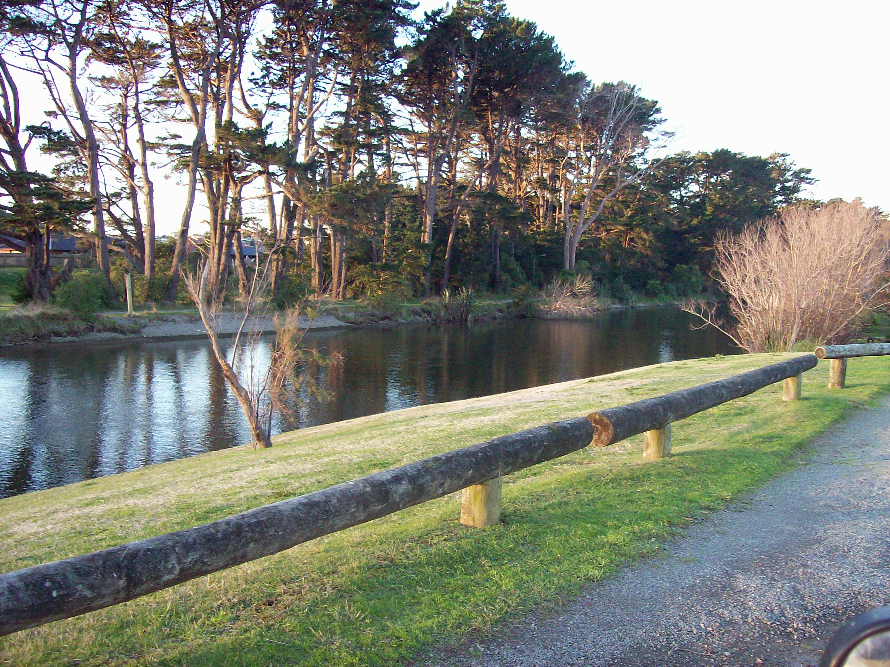 The Waikanae River as viewed from Makora Road, Otaihanga; the town of Waikanae Beach is across the river. The river flows to the left of the picture to the sea.